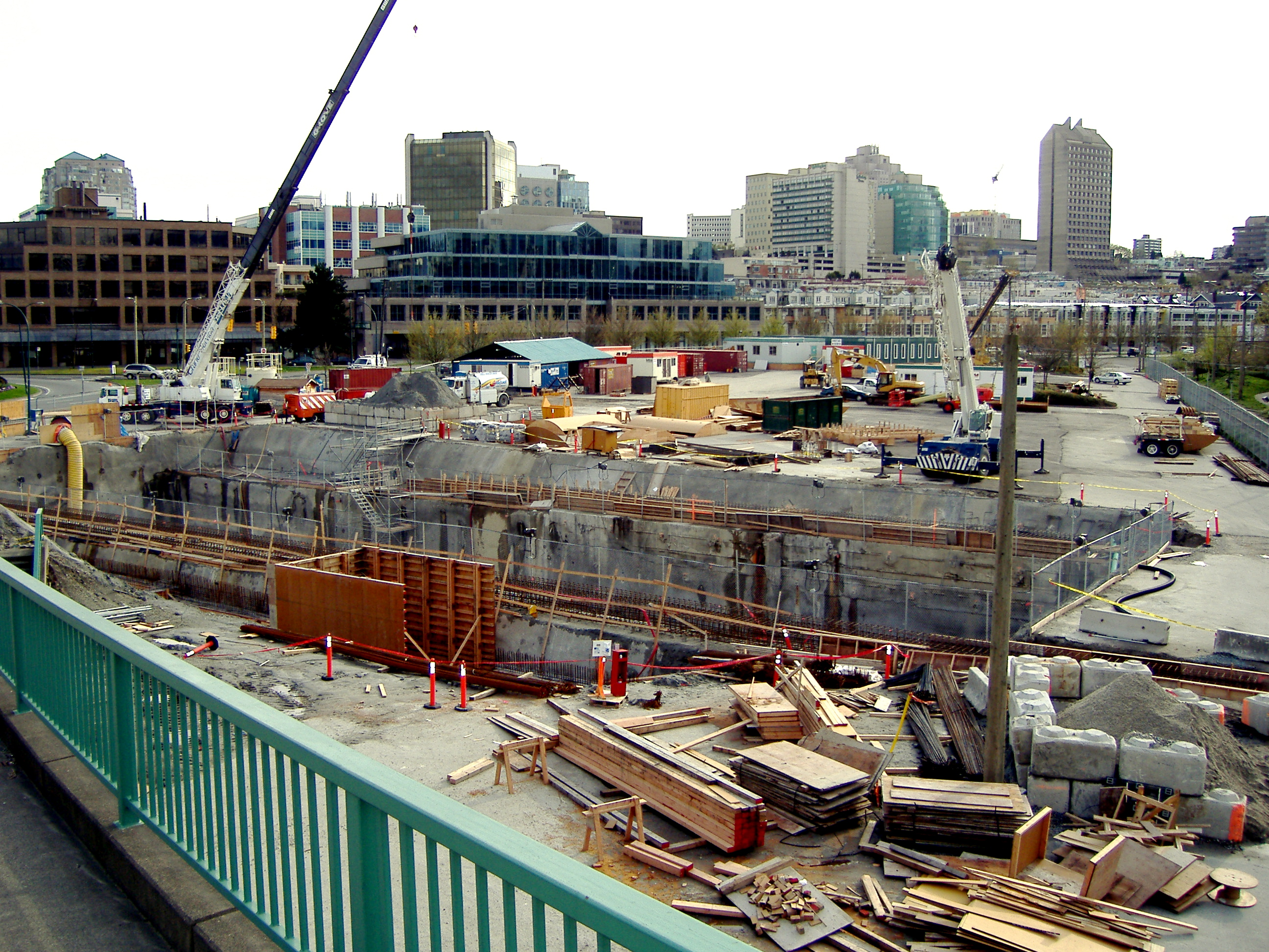 Photo taken by myself, Colin Keigher, from the off-ramp on the Cambie Street bridge, showing the preparation for the tunnel burrower that will dig under False Creek for the Canada Line. Taken on April 14th, 2006.